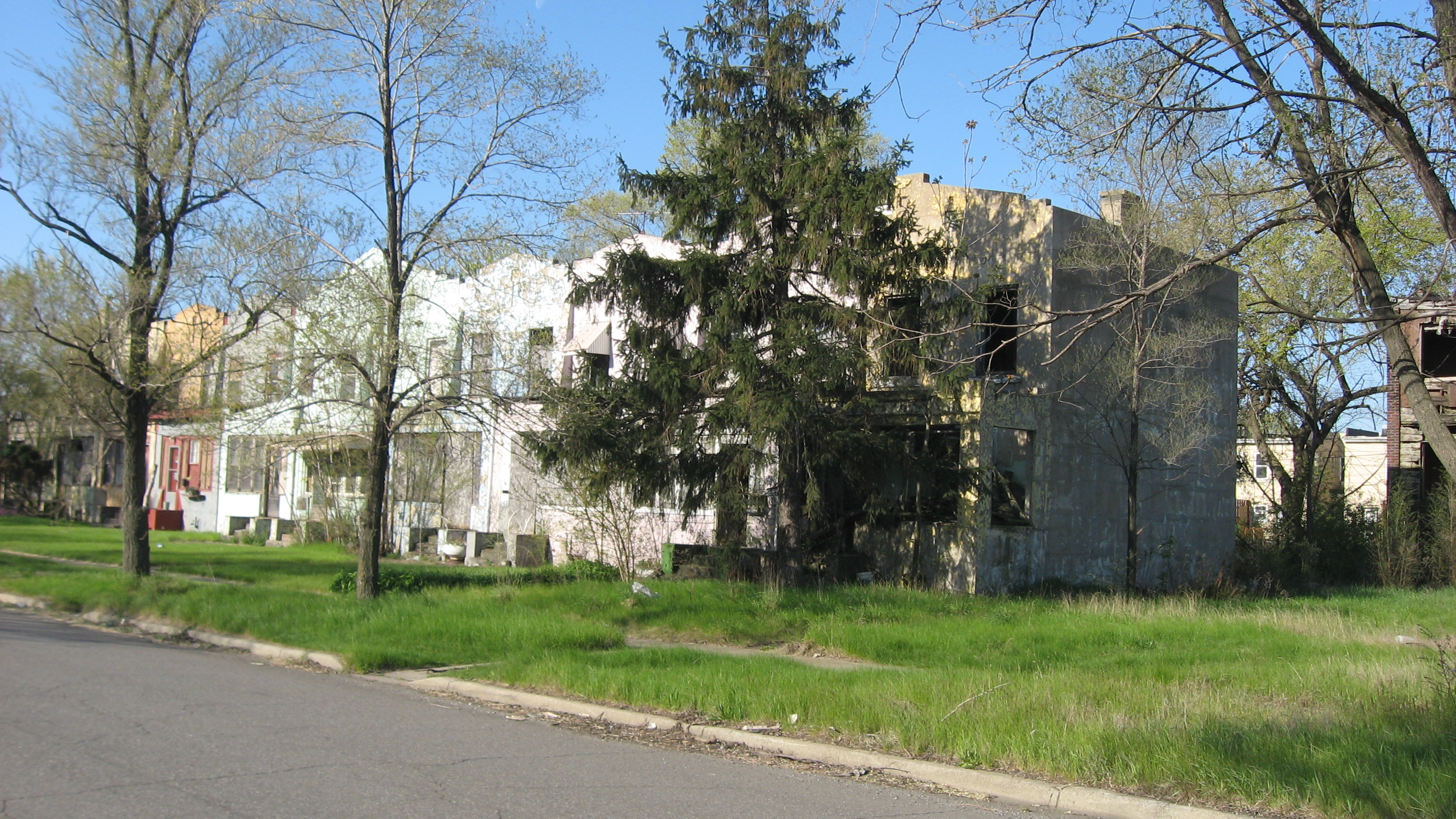 Looking southward along the houses on the western side of the 400 block of Jackson Street in Gary, Indiana, United States. The houses pictured are part of the Jackson-Monroe Terraces Historic District, a historic district that is listed on the National Register of Historic Places.